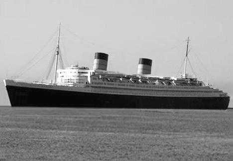 Digitally altered depiction of the RMS Queen Elizabeth, based on a free-use photo of the RMS Queen Mary (Image:RMS Queen Mary Long Beach.jpg). Because the RMS Queen Elizabeth was a sister ship, and shared essentially the same design, the RMS Queen Mary photo could be altered to resemble the RMS Queen Elizabeth, its larger sister. Changes are: Removal of Long Beach dock area and surrounds. Alteration of forward hull; change rake of bow to greater angle of QE; remove well deck. Alteration of forward superstructure; revised forward window arrangement, alter flying bridge. Removal of older-style ventilator ducts which the QM had, QE did not. Replacement of funnel trio with dual funnels. Adjust length of superstructure/hull sections. Rotate photo and render in grayscale. Additional adjustments. This change was made based on textual descriptions and other information publicly available about the differences between the Queen Elizabeth and Queen Mary. See Image:RMS Aquitania Mural.png for a related modification.